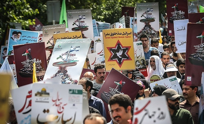 Quds Day protests in Tehran, Iran